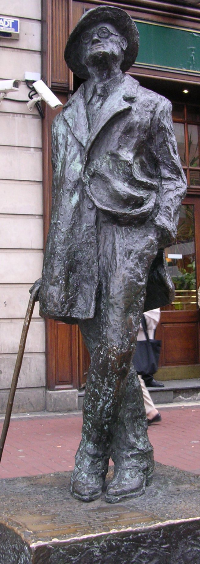 James Joyce statue on North Earl Street near its junction with O'Connell Street in Dublin, by Marjorie FitzGibbon